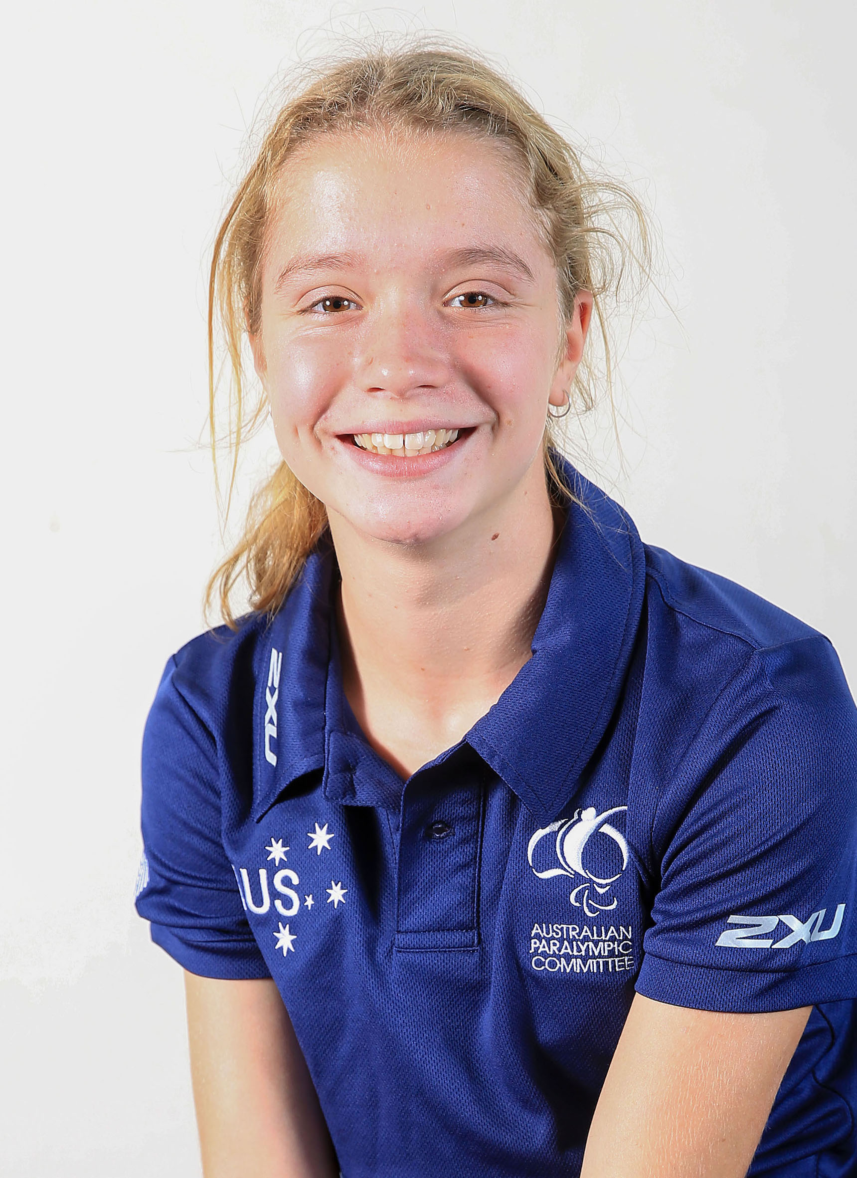 Portrait photograph of Isis Holt taken at team processing session for shadow members of 2016 Australian Paralympic team